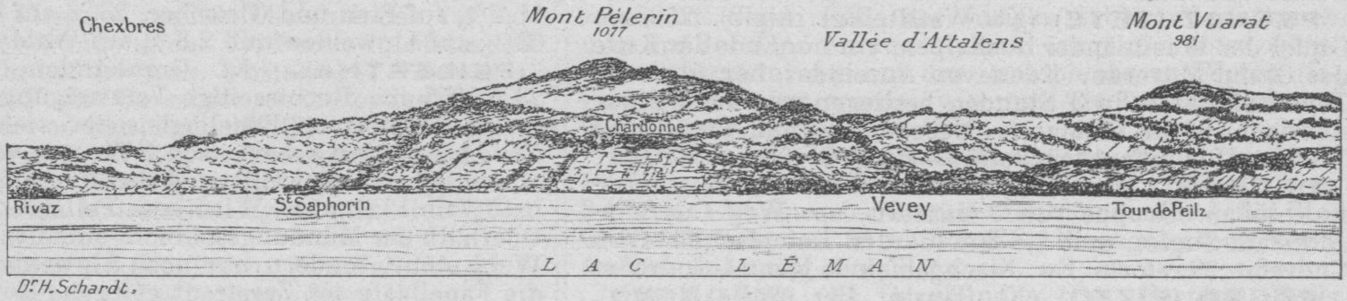 Mont Pèlerin seen from Le Bouveret – image taken from Geographic Lexicon of Switzerland, volume 3 (1905), page 716